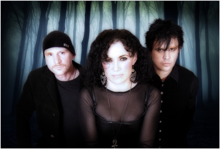 Photograph ofThe Band Inkubus Sukkubus 2011